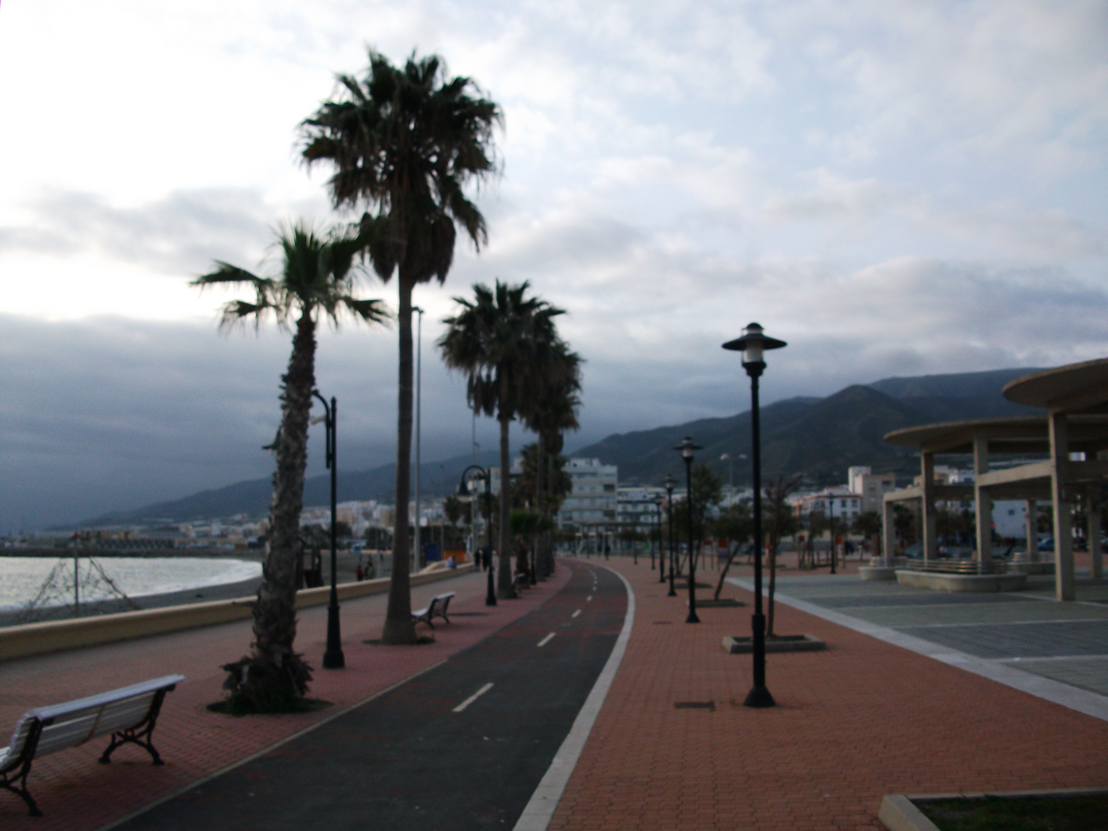 Paseo Marítimo Adra mar 2011